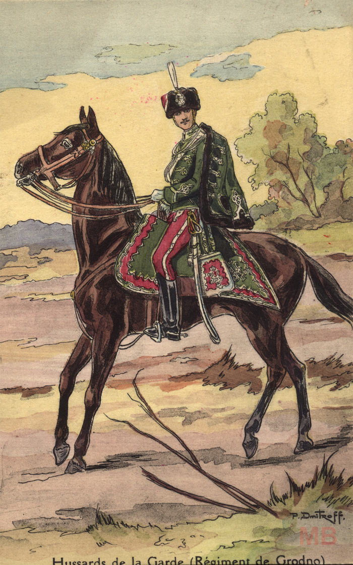 Uniform of Grodno Husar Regiment. 1914 Postcard.